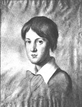 Wolfgang Maximilian von Goethe (1820-1883), son of August von Goethe (1789-1830) and grandson of Johann Wolfgang von Goethe (1749-1832)